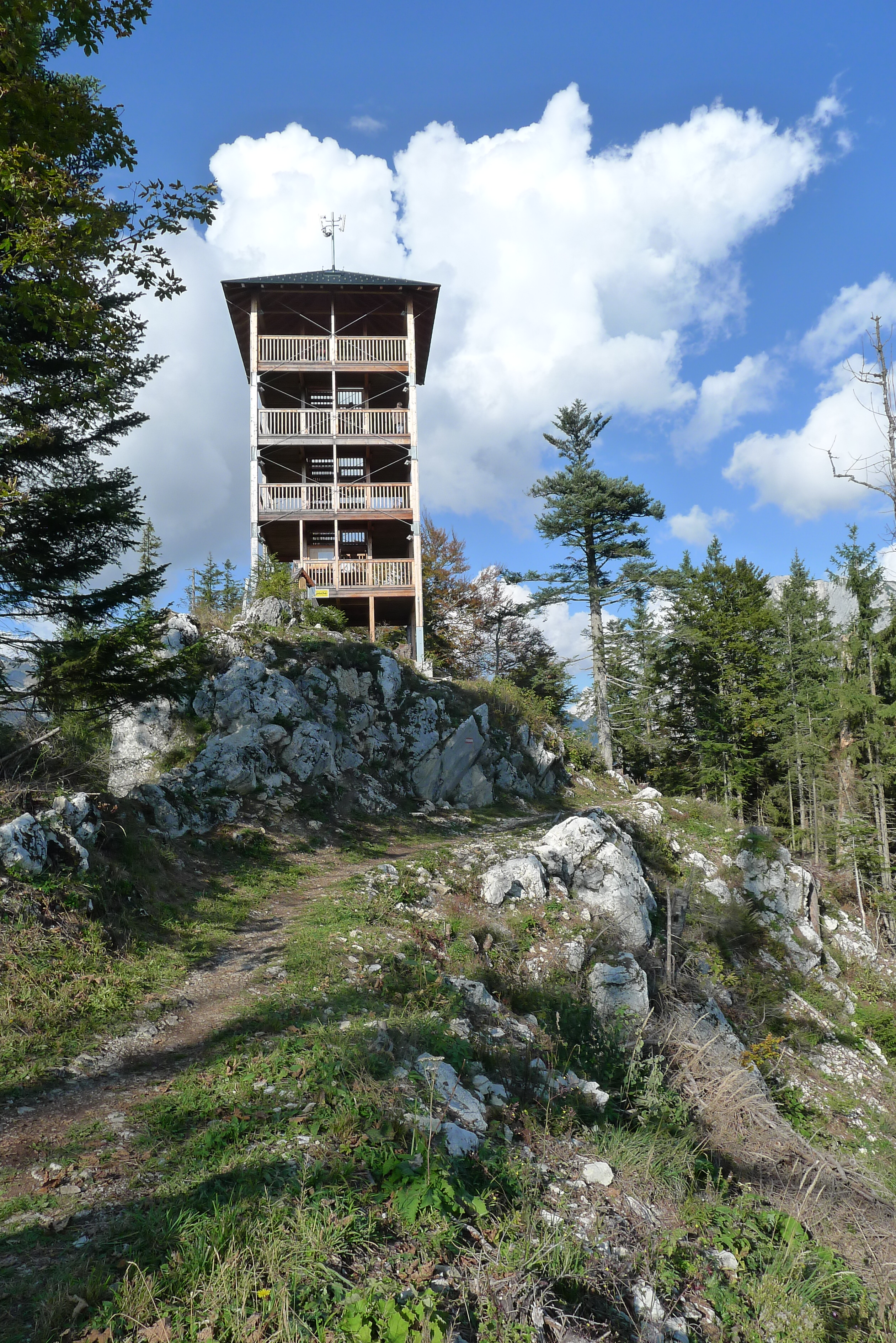 Tressenstein observation tower